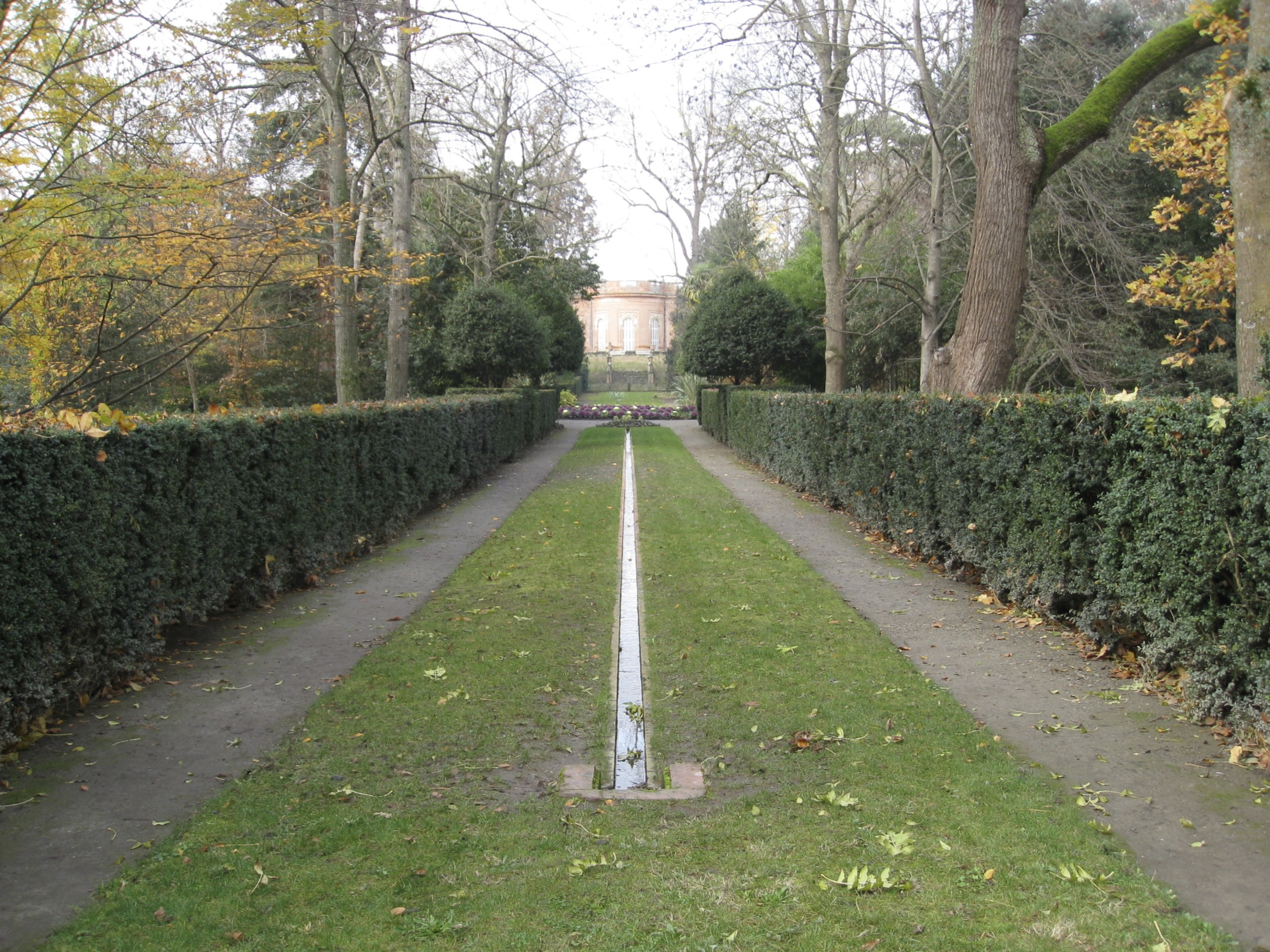 Garden of the castle of Reynerie in Toulouse